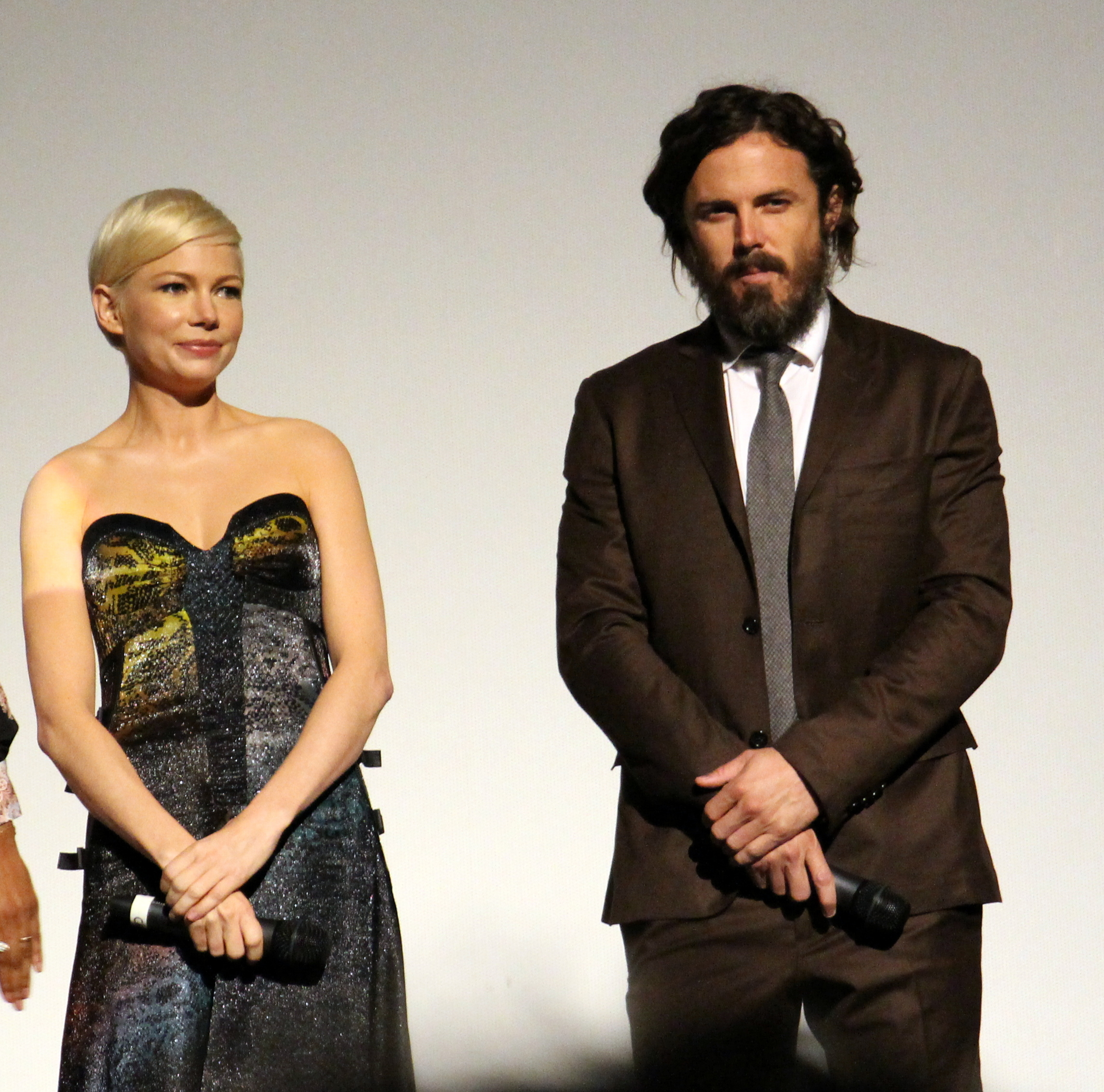 A producer, Michelle Williams and Casey Affleck at the Manchester by the Sea premiere